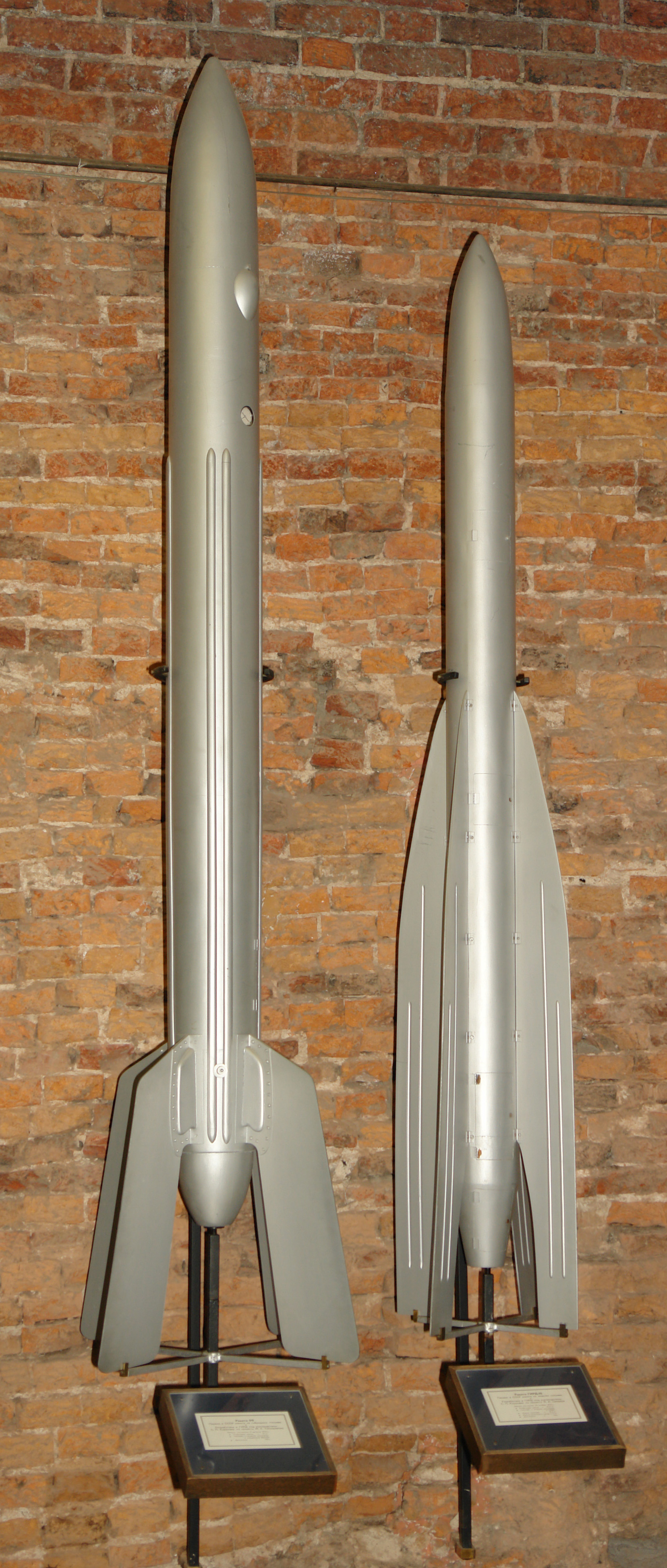 Ракета 09 (слева) и 10 (ГИРД-09 и ГИРД-10). Музей космонавтики и ракетной техники; Санкт-Петербург. This photograph was taken in Museum of Space and Missile Technology (Saint Petersburg) Object location59° 57′ 07″ N, 30° 19′ 16″ E